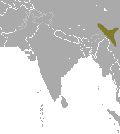 Chinese Highland Shrew (Sorex excelsus) range